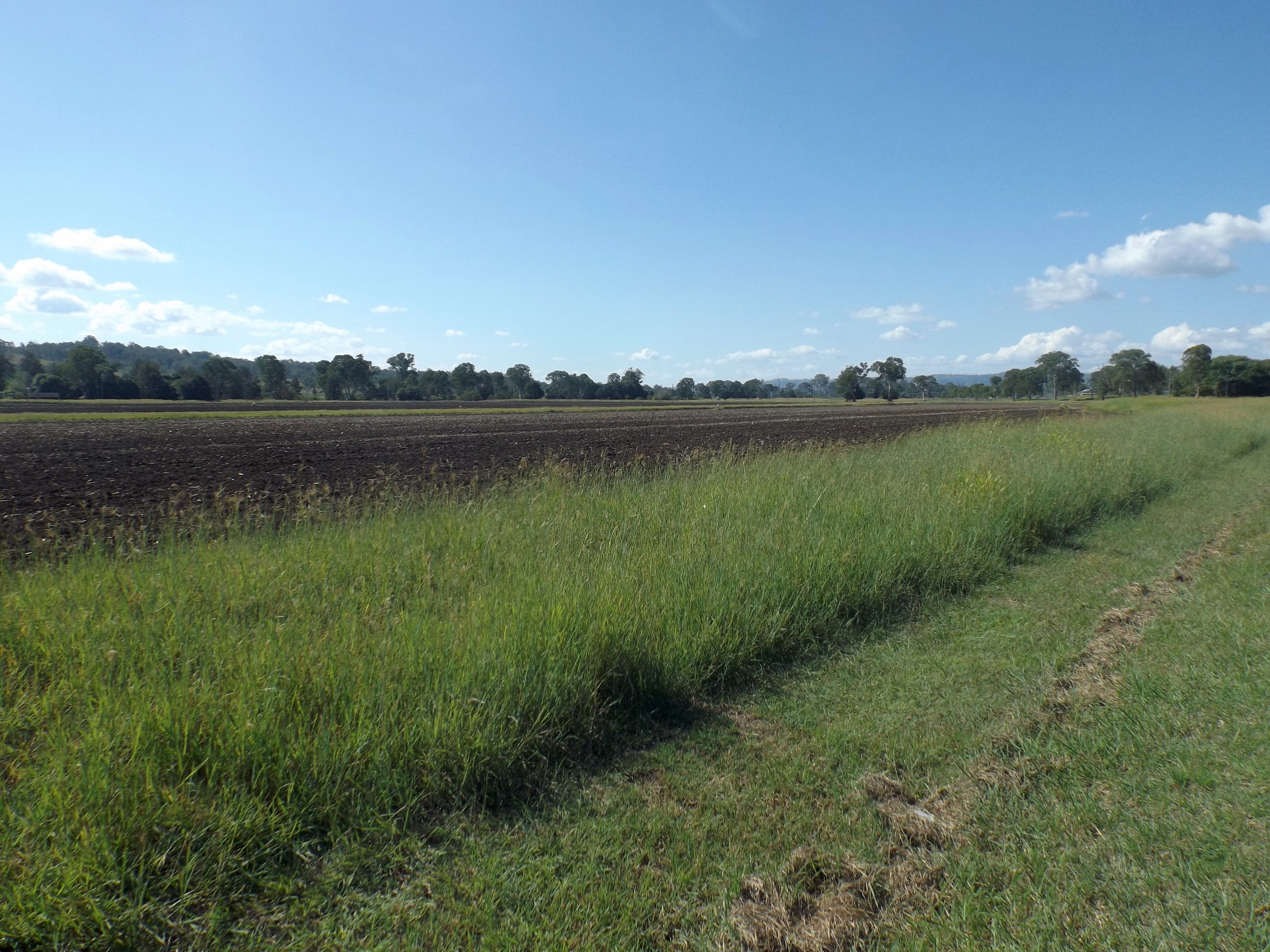 Photo of fields along Oaky Scrub Road at Innisplain, Scenic Rim Region, Queensland, Australia.